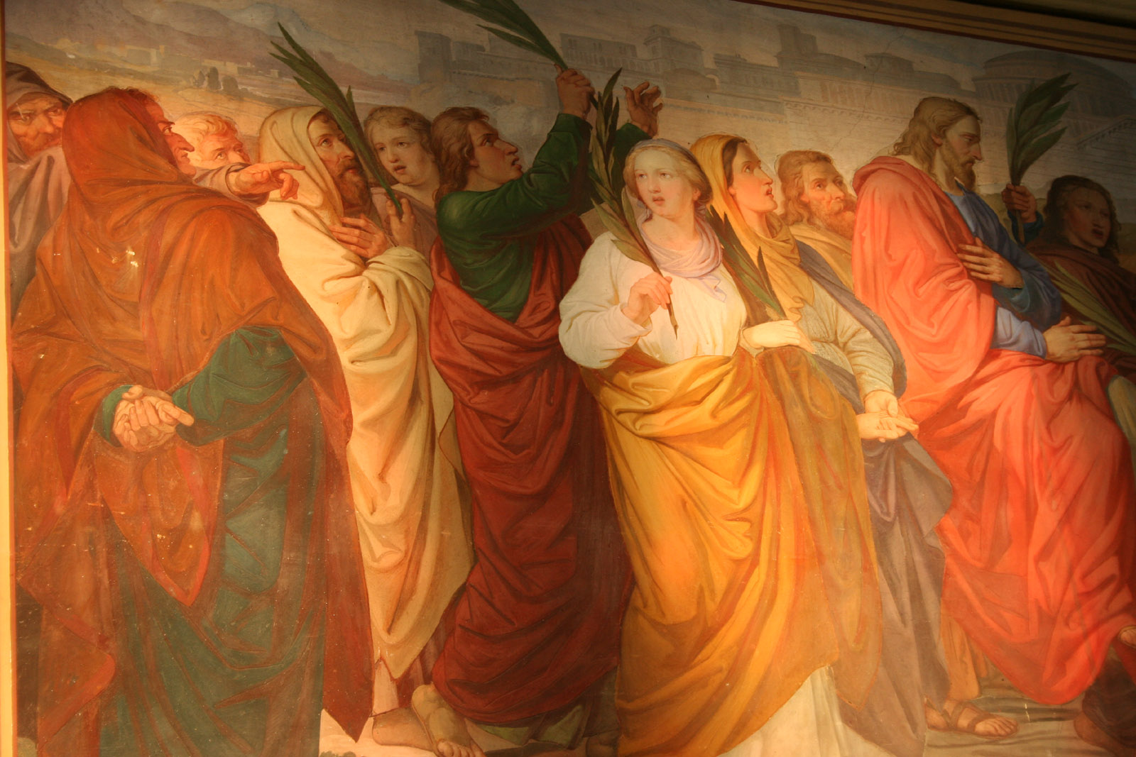 Description: Left Apsis: Jesus entering Jerusalem on Palm Sunday. Fresco in the Parish Church of Zirl, Austria.